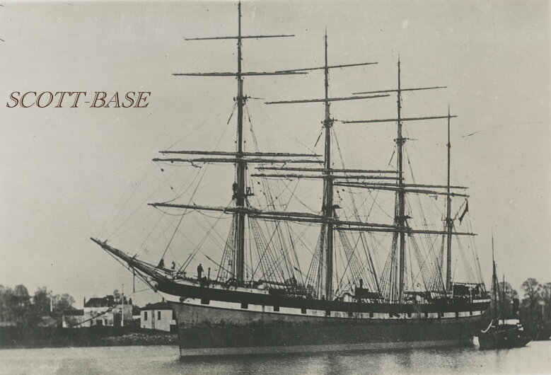 Four masted barque Glenbreck (1890-1901), built by Robert Duncan & Co Port Glasgow, Yard No 249.